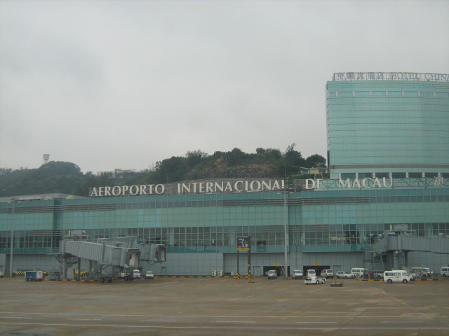 View of Macau International Airport outside